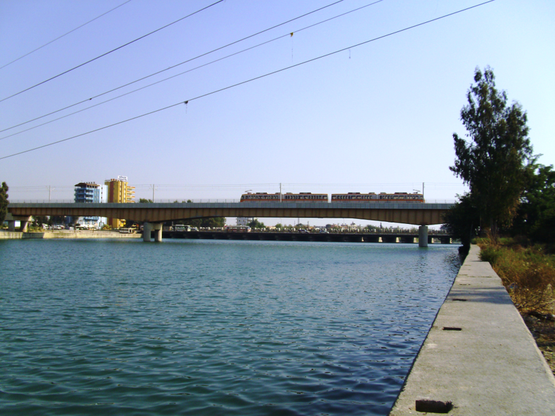 Far view of the mettro train crossing Seyhan River